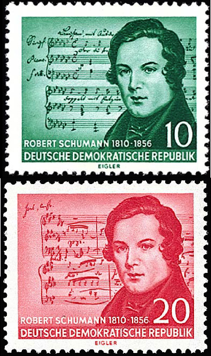 Postage stamps of GDR, Schumann (incorrectly showing music by Schubert) and Schumann (correct music by Schumann), 10 Pf and 20 Pf, 1956